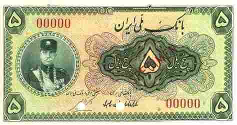 5r-type1-obv-reza